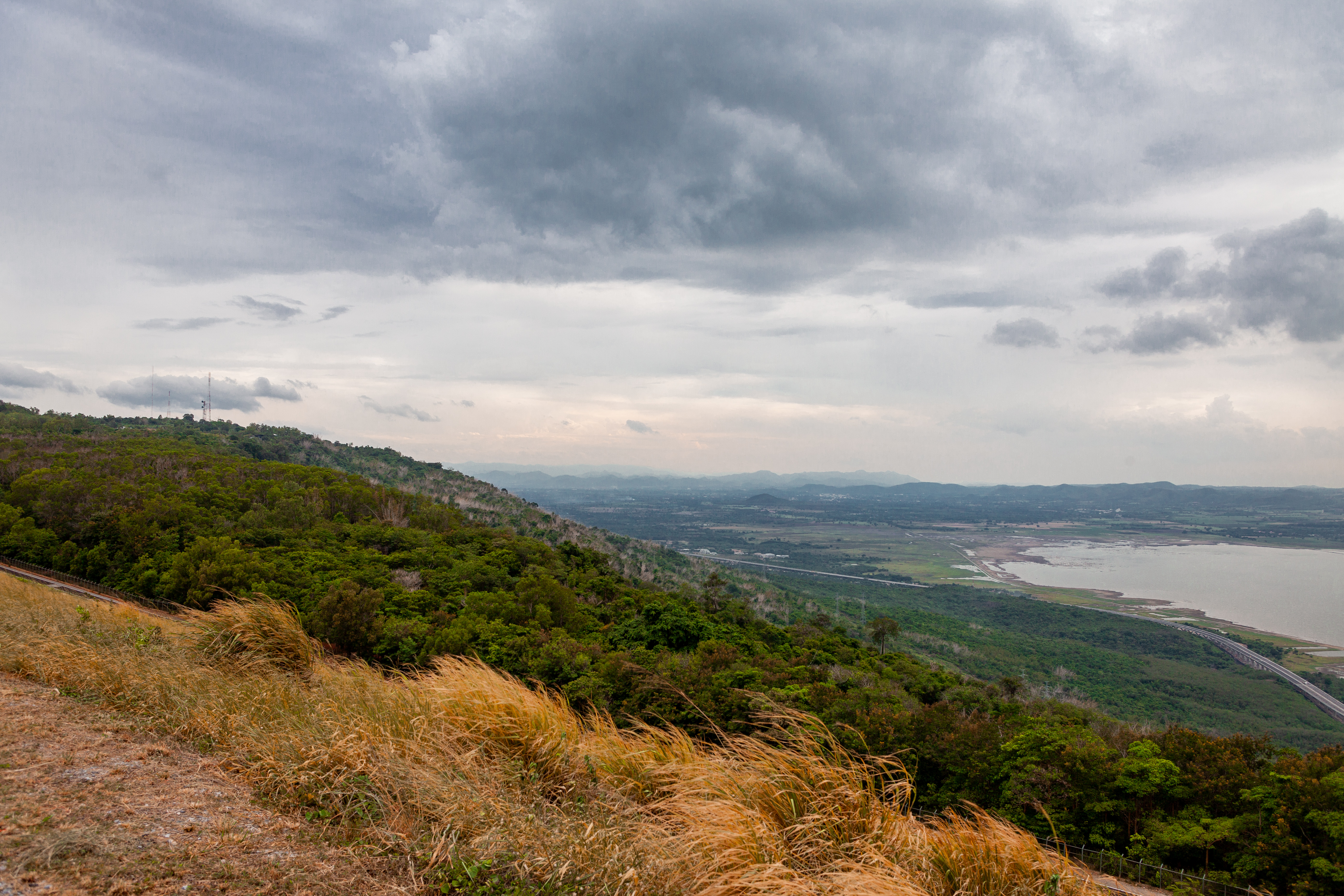 The view of Lam Takhong from Yai Tieng mountain, Pak Chong District, Nakhon Ratchasima Province, Thailand.